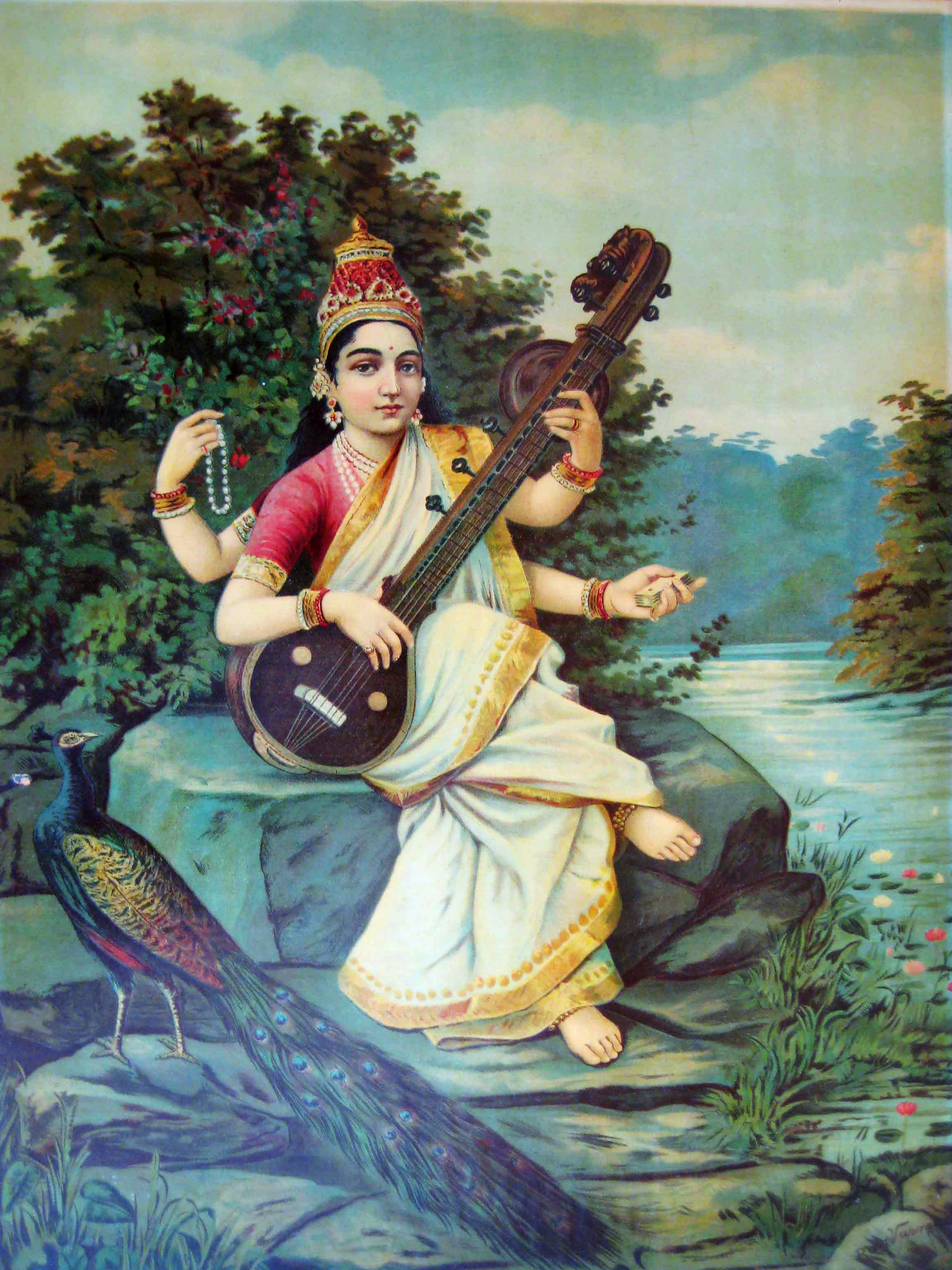 Saraswati.